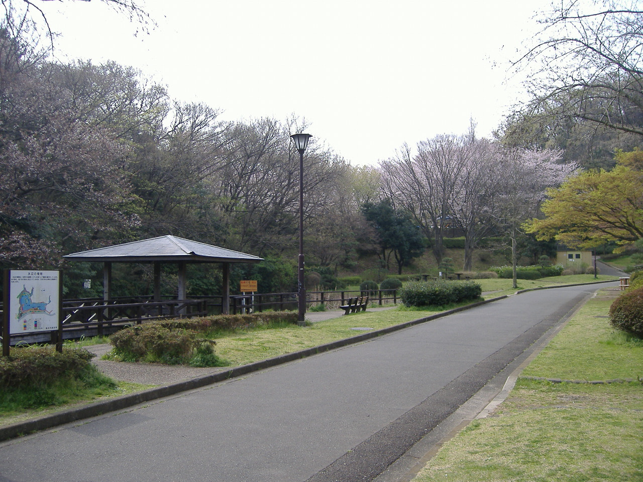 Kuraki Park(Yokohama, Japan)